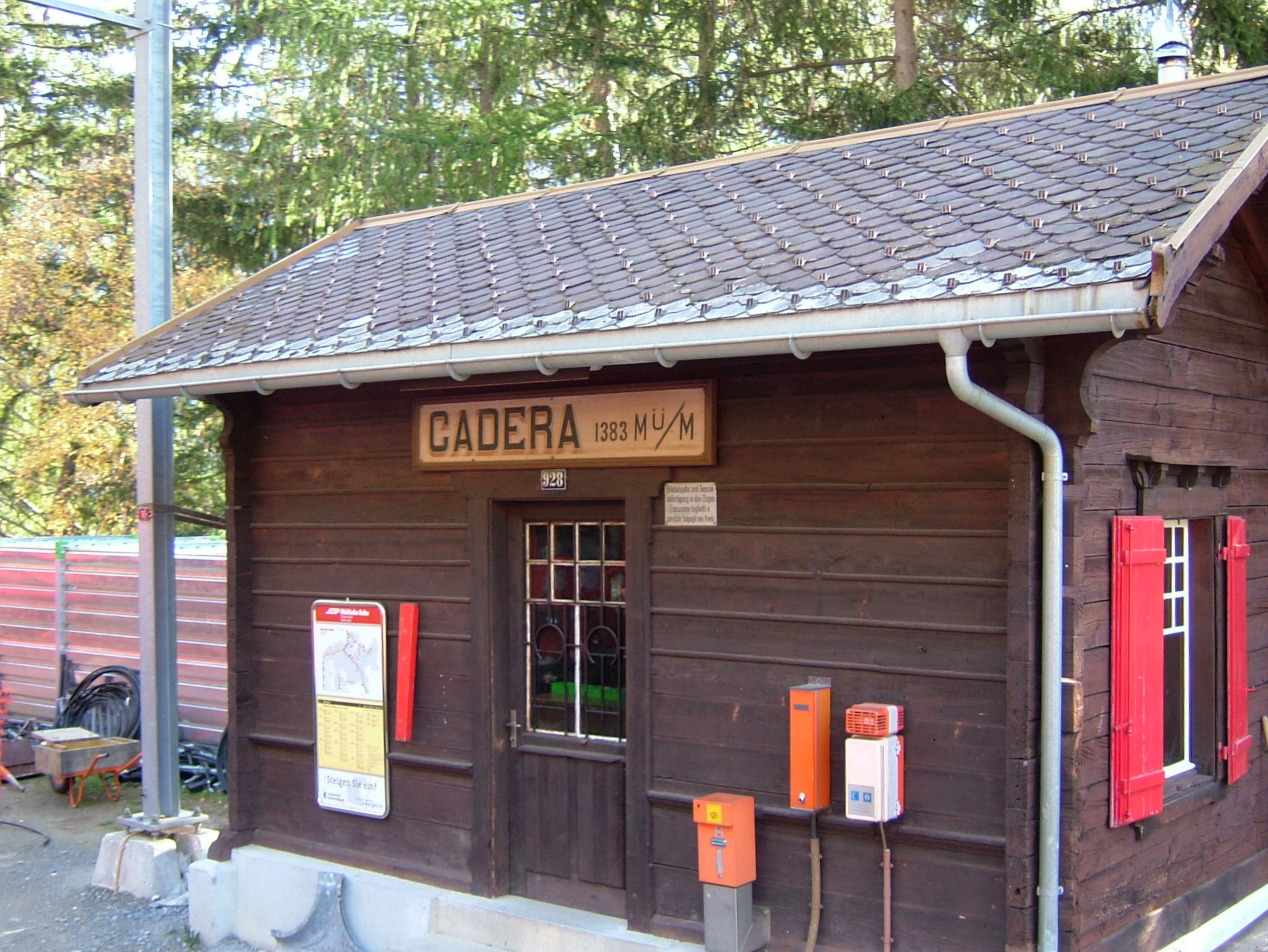 Bernina railwayDeployment between Bernina Pass and Poschiavo at the Cadera railway station